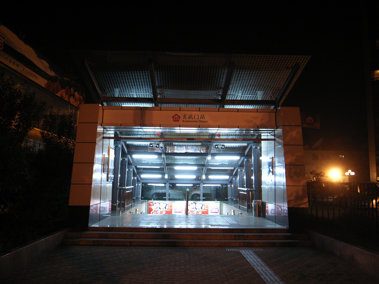 Nanjing metro Xuanwumen Station